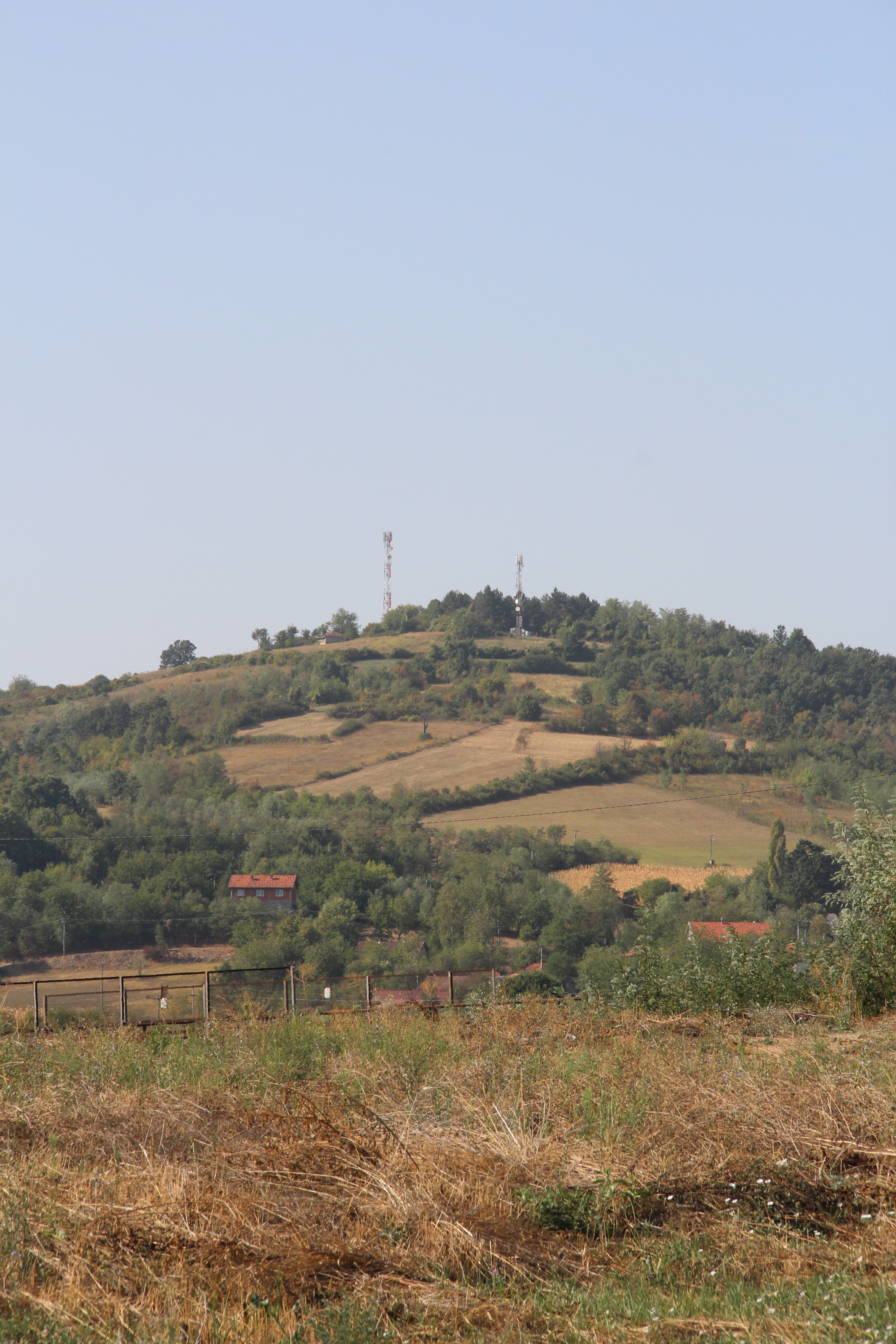 Slovac village - Municipality of Lajkovac - Western Serbia - panorama 2